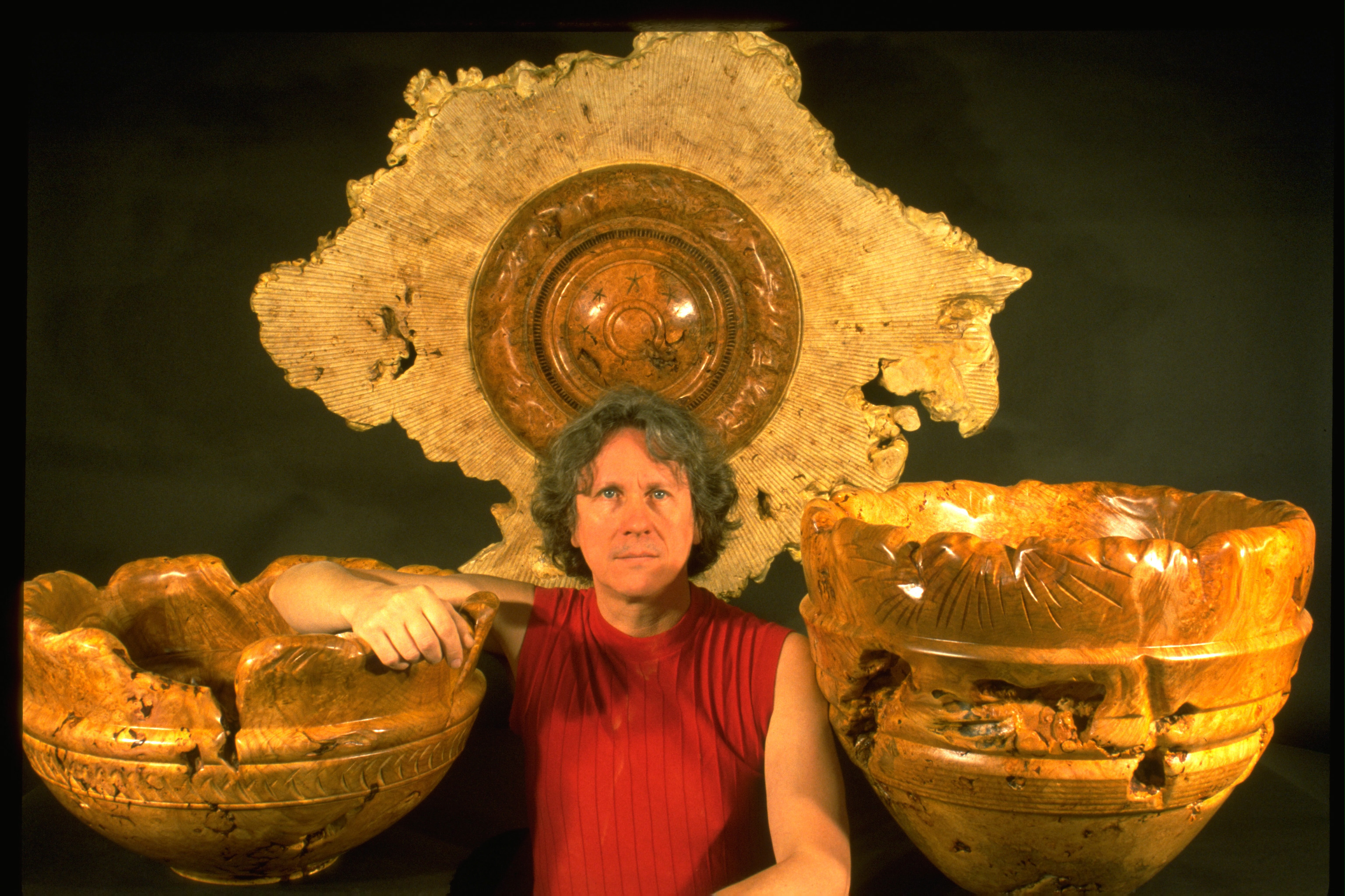 Dennis Elliott and his wood sculptures 1997